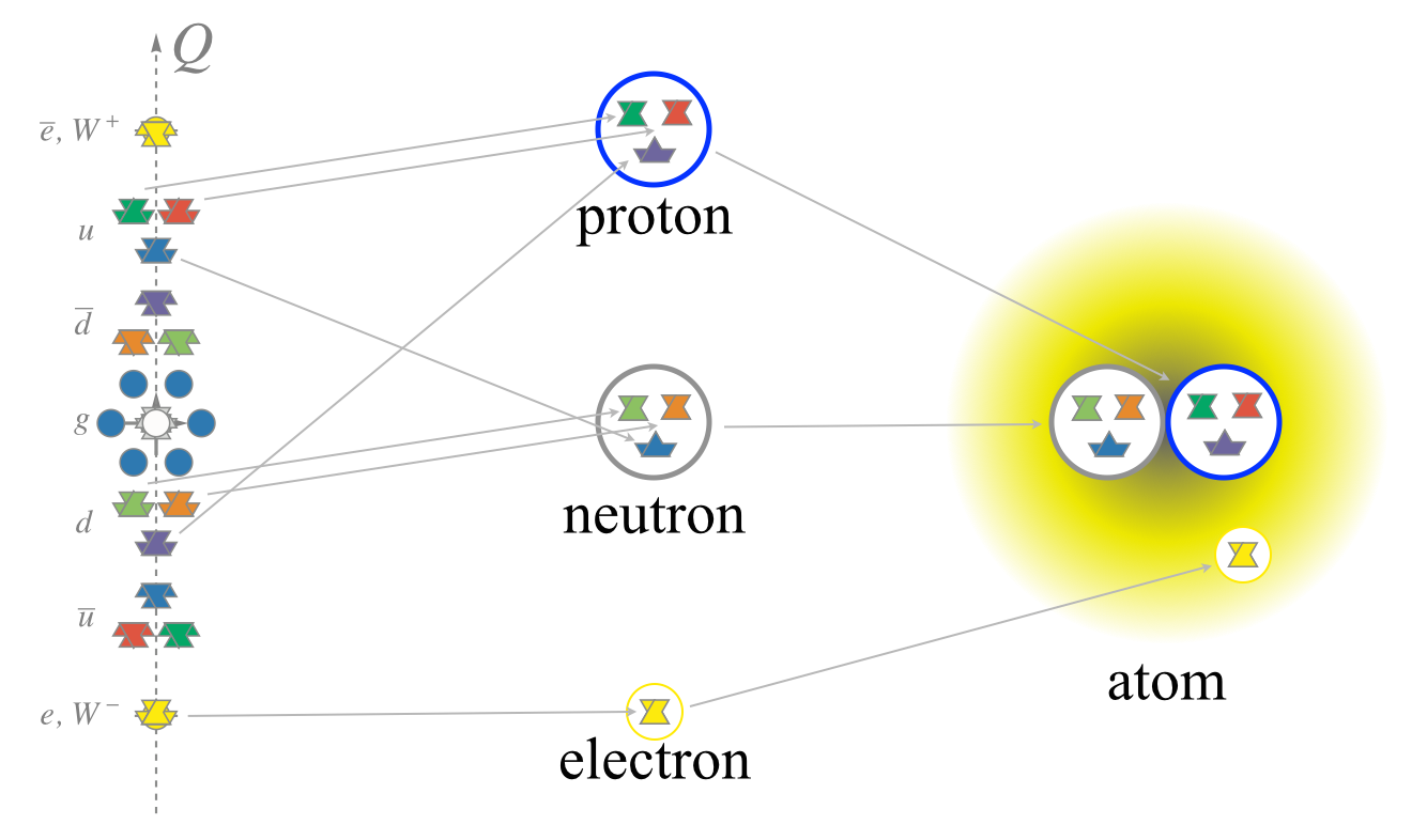 Electrons and quarks, with electric and color charges, make up color-neutral protons (with total electric charge +1) and neutrons (with electric charge 0), which make up atoms.